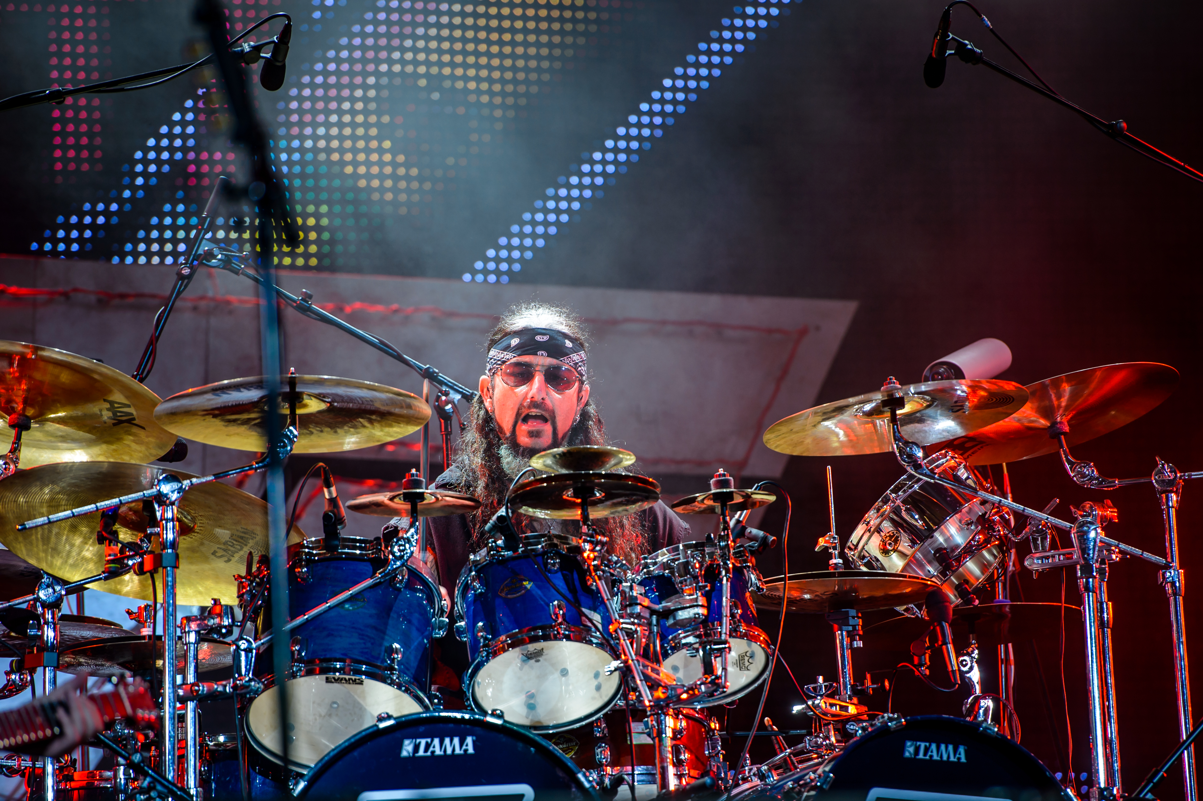 Twisted Sister; Wacken Open Air 2016